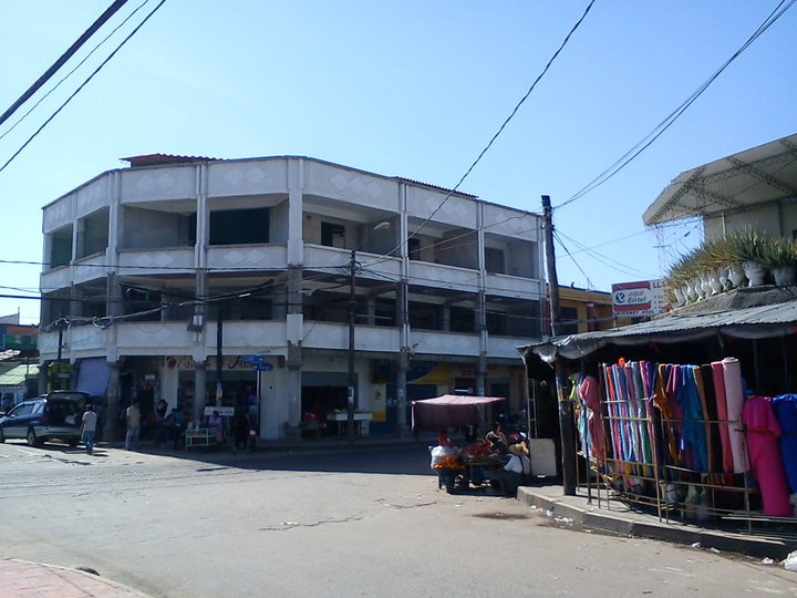 street in Montero, Santa Cruz dept, Bolivia